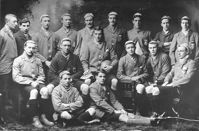 Edinburgh University Rugby union football team: Team identified as (Back L to R: A O Hooper (Reserve), J B Allison, W H Welsh, H H Bullmore, A McNab, A W Duncan, A O Freer, R A Ross, A M Caverhill; Middle L to R: A McEwan, A B Timms, A B Flett (Captain), A N Fell, R G Archibald, A Frew, Front L to R: J S MacDonald (Reserve), F H Fasson